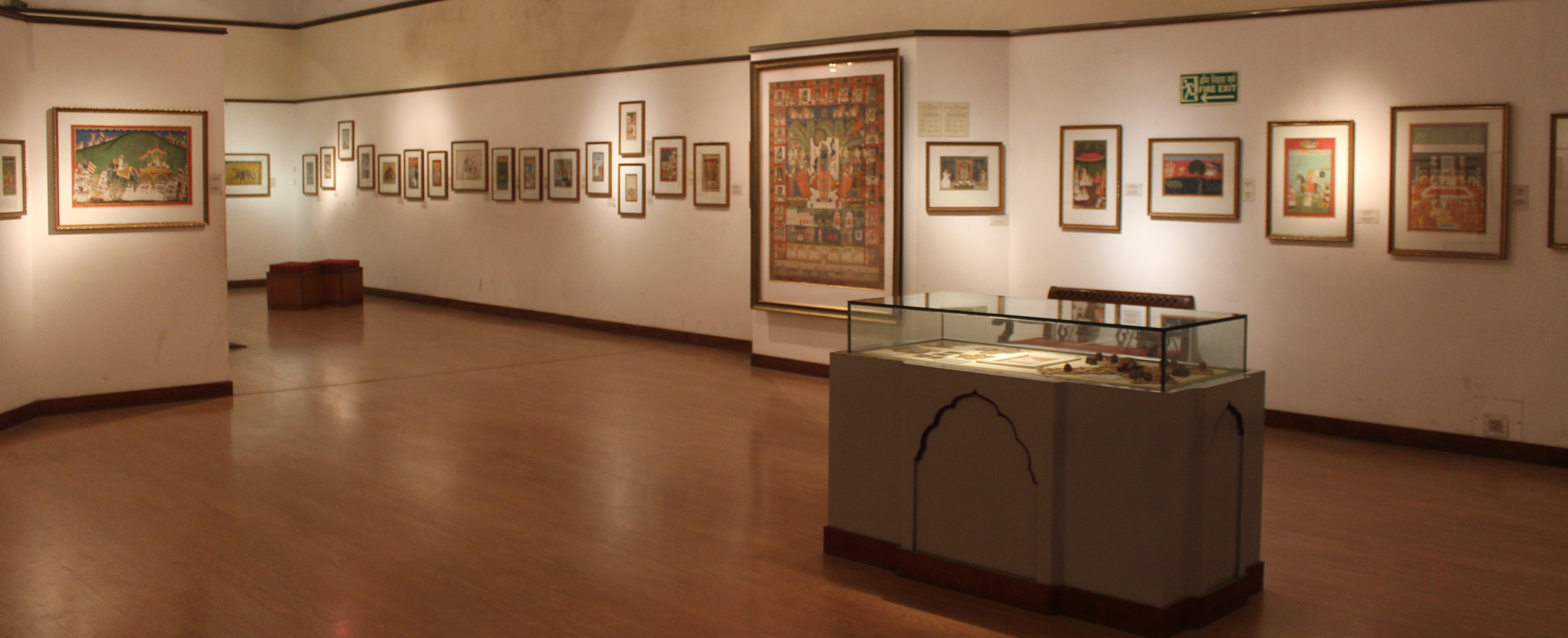 A view of the Miniature Paintings Gallery